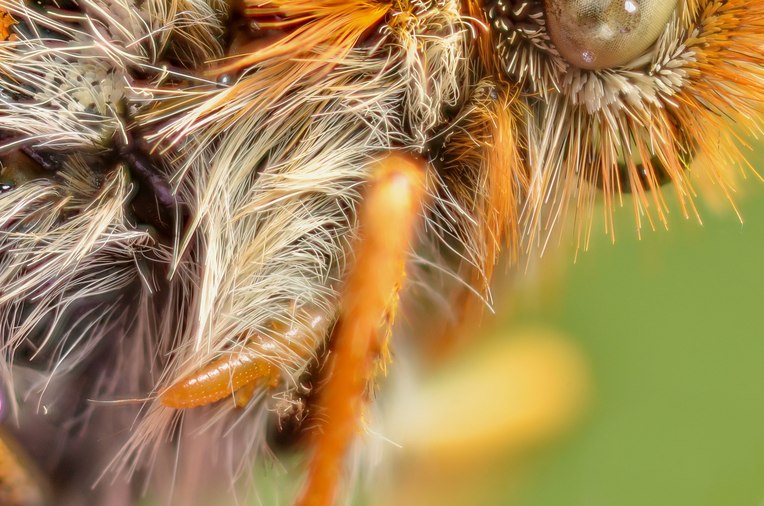 Planidium larvae of a Blister beetle (Meloidae) attached to the hairs of a Marsh Fritillary butterfly (Euphydryas aurinia). These kind of larvae are also called "triungulin" in this coleoptera familly only. Doische, Belgium. Scale : Triungulin length ~ 3 mm Technical settings : - Focus stack of 6 images - Micro-Nikkor AF 60mm f/2.8D at f/10 on extention tubes